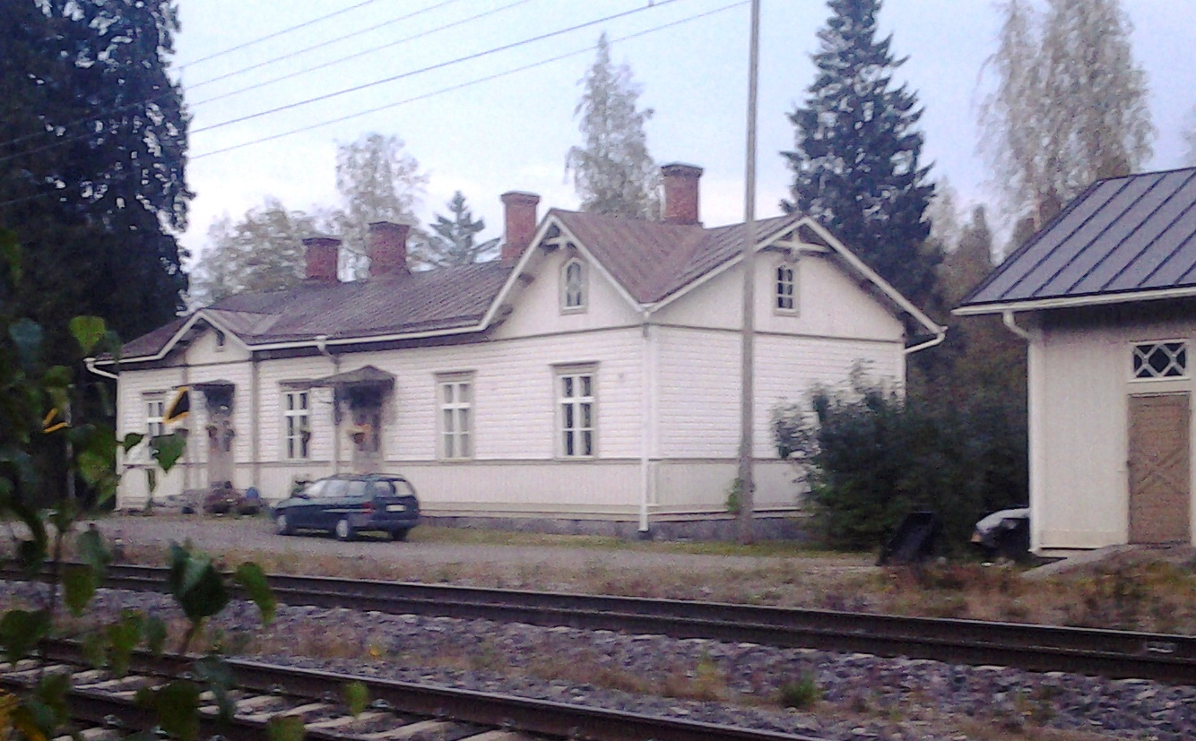 Suinula railway station in Kangasala.